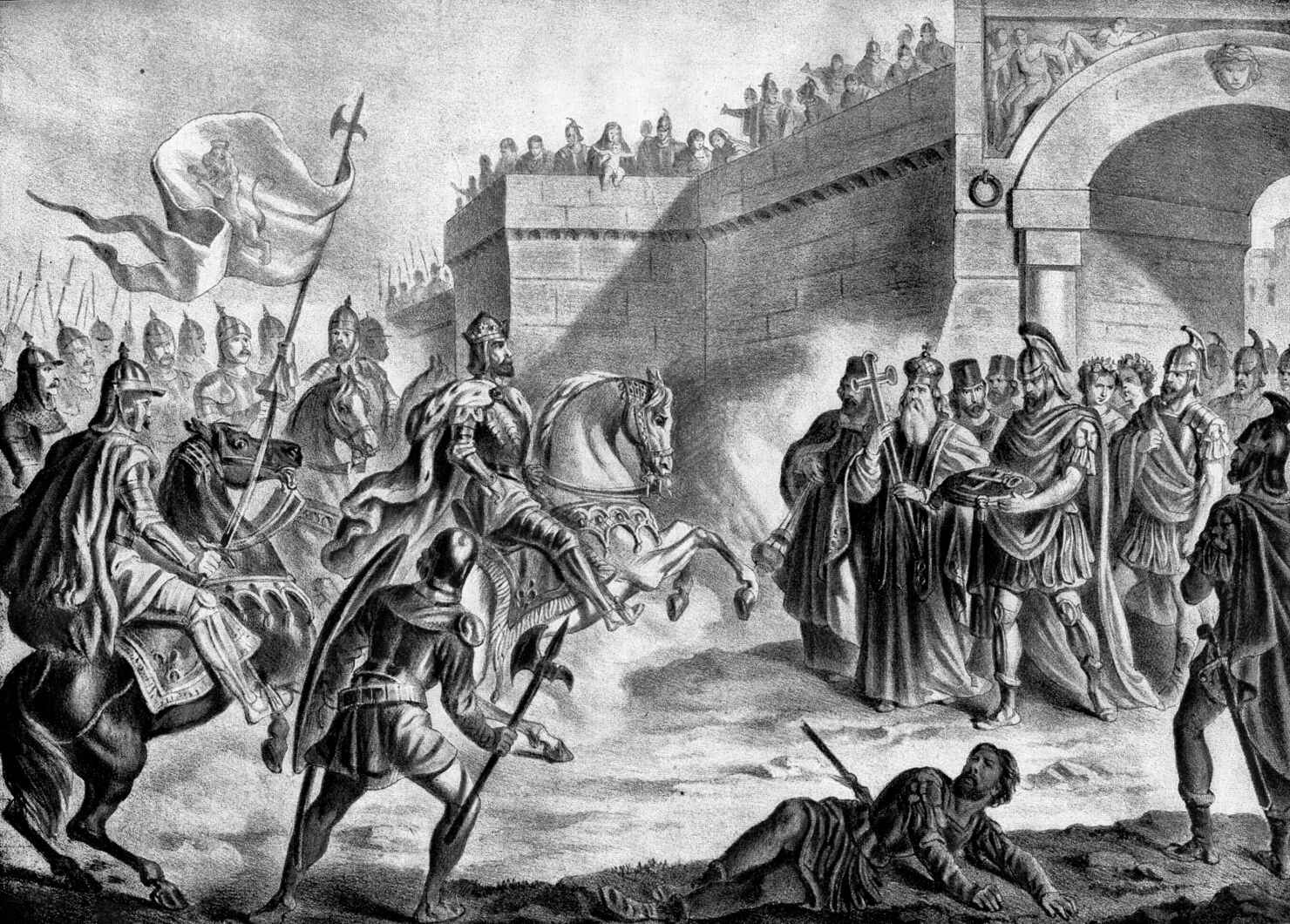 "Tsar Simeon the Great before the gates of Constantinople"